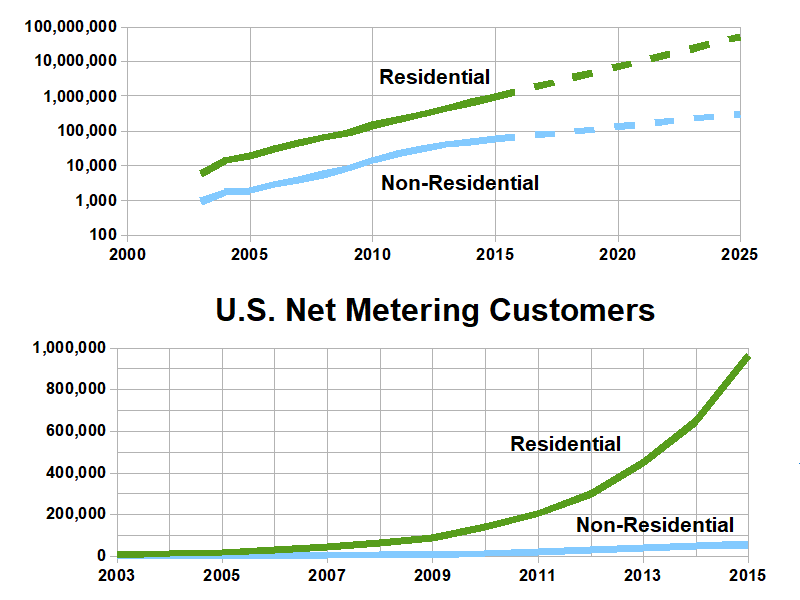 Net metering customers in the United States, from Electric Power Annual. 2003[1] This file may be updated.